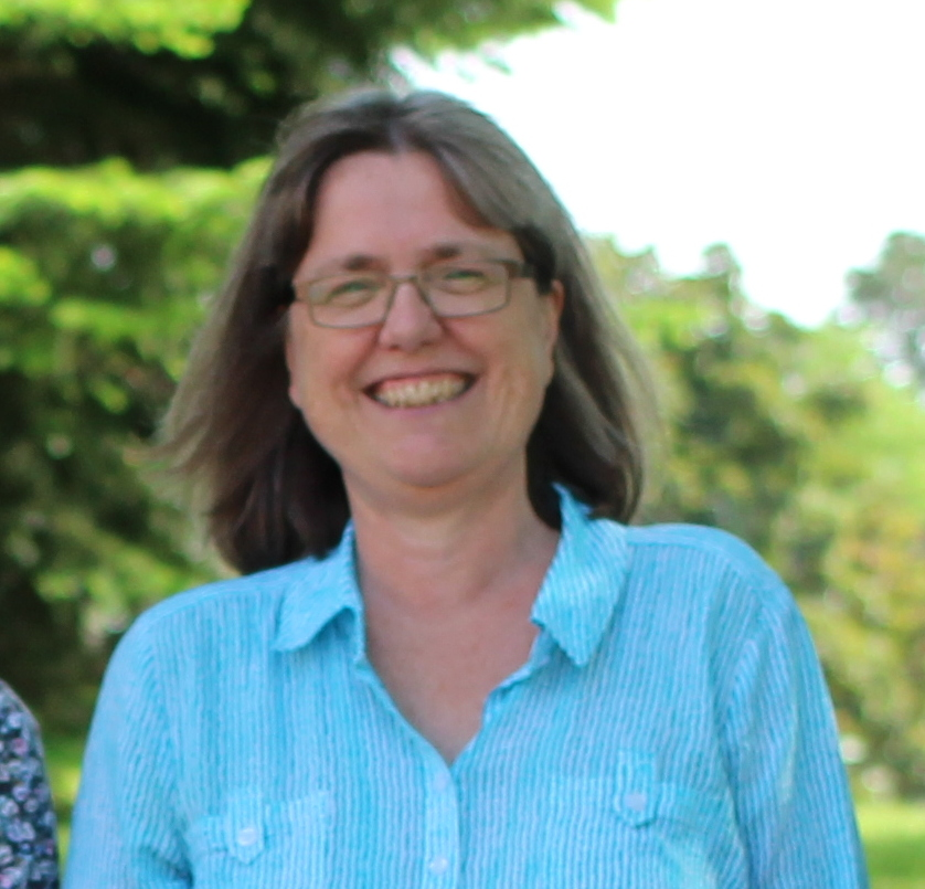 Donna Strickland's group at University of Waterloo